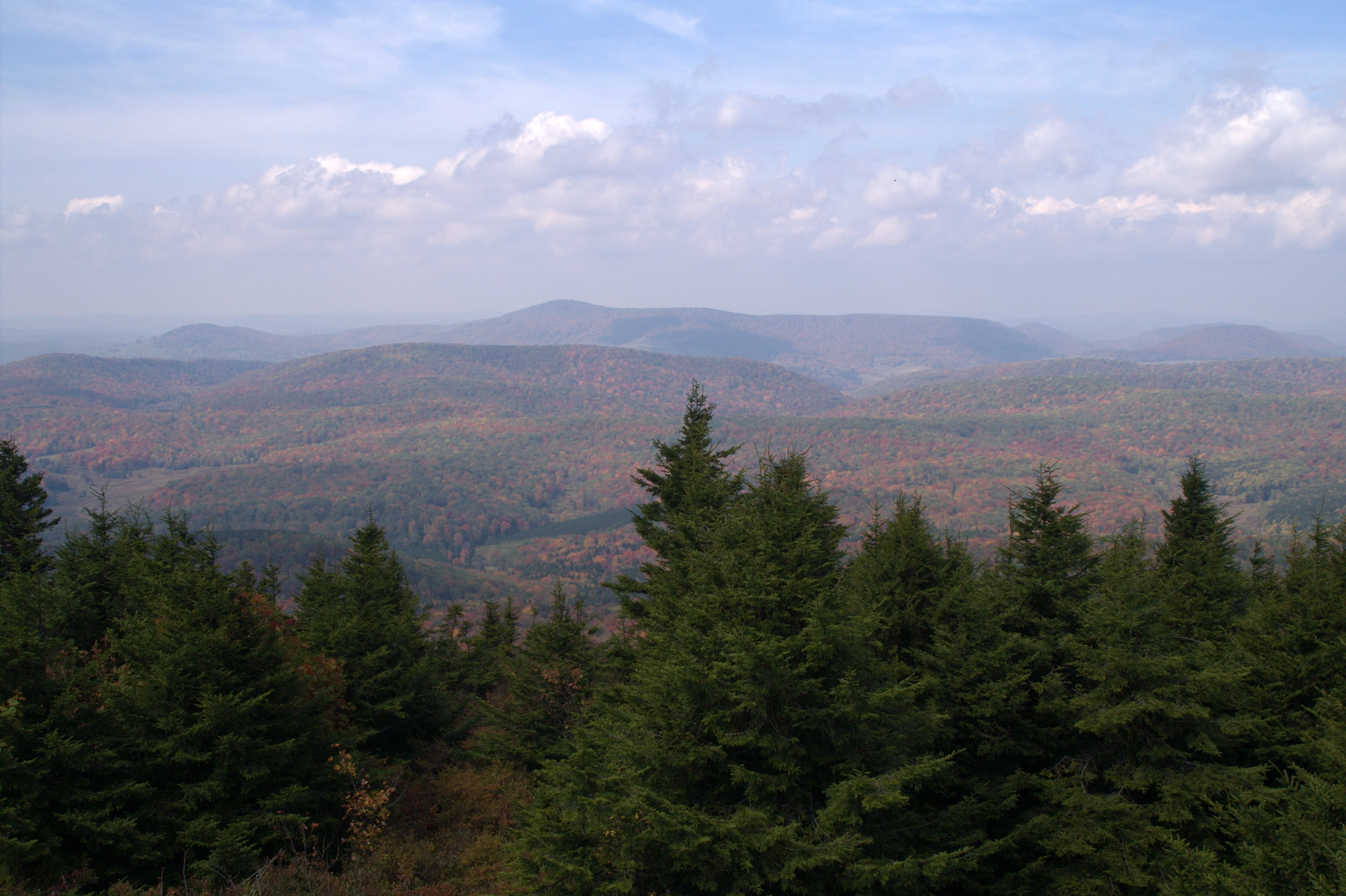 View from the observation tower atop of Spruce Knob in Spruce Knob-Seneca Rocks National Recreation Area in West Virginia. Foreground trees are Red Spruce Picea rubens.